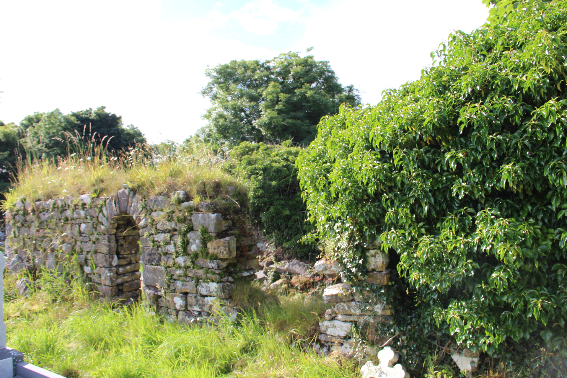 Old church